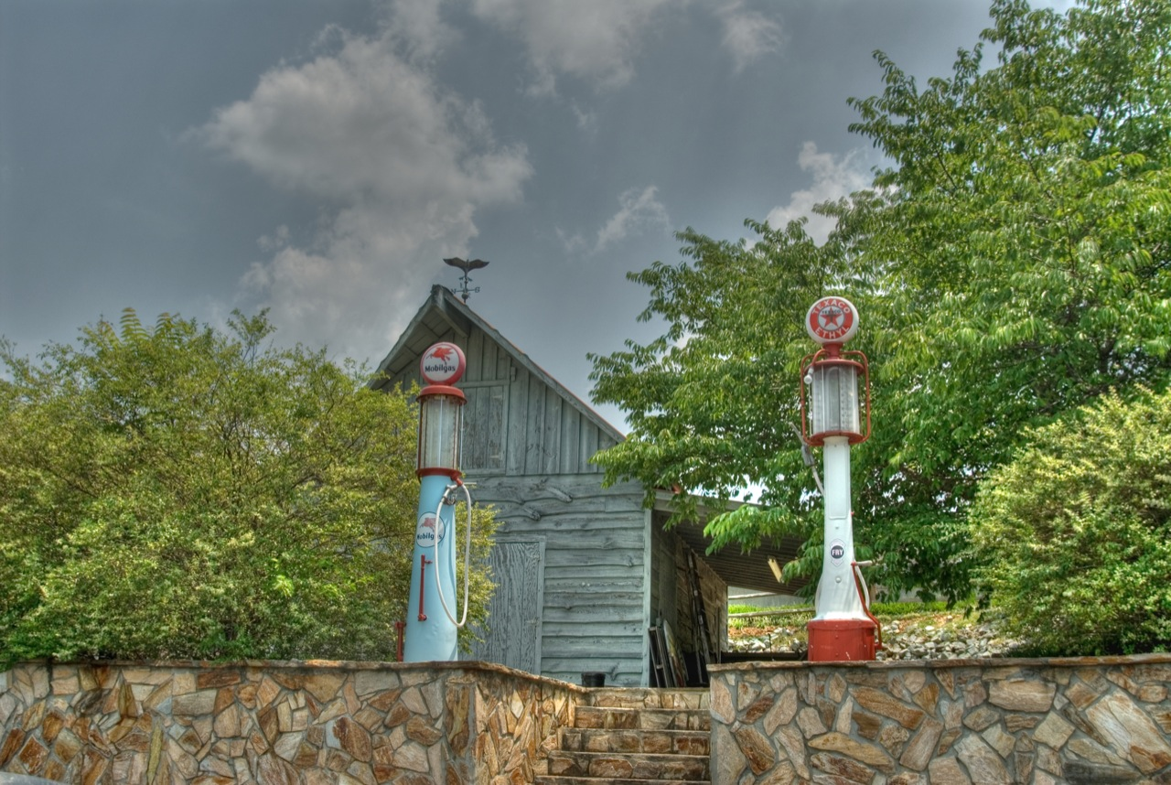 A restaurant in Roxboro, North Carolina has all these old gas pumps spread around its parking lot.